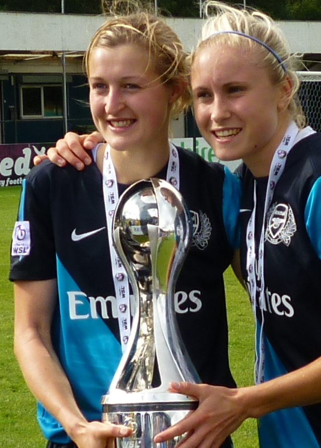 Arsenal Ladies footballers Ellen White and Steph Houghton holding the FA WSL trophy.